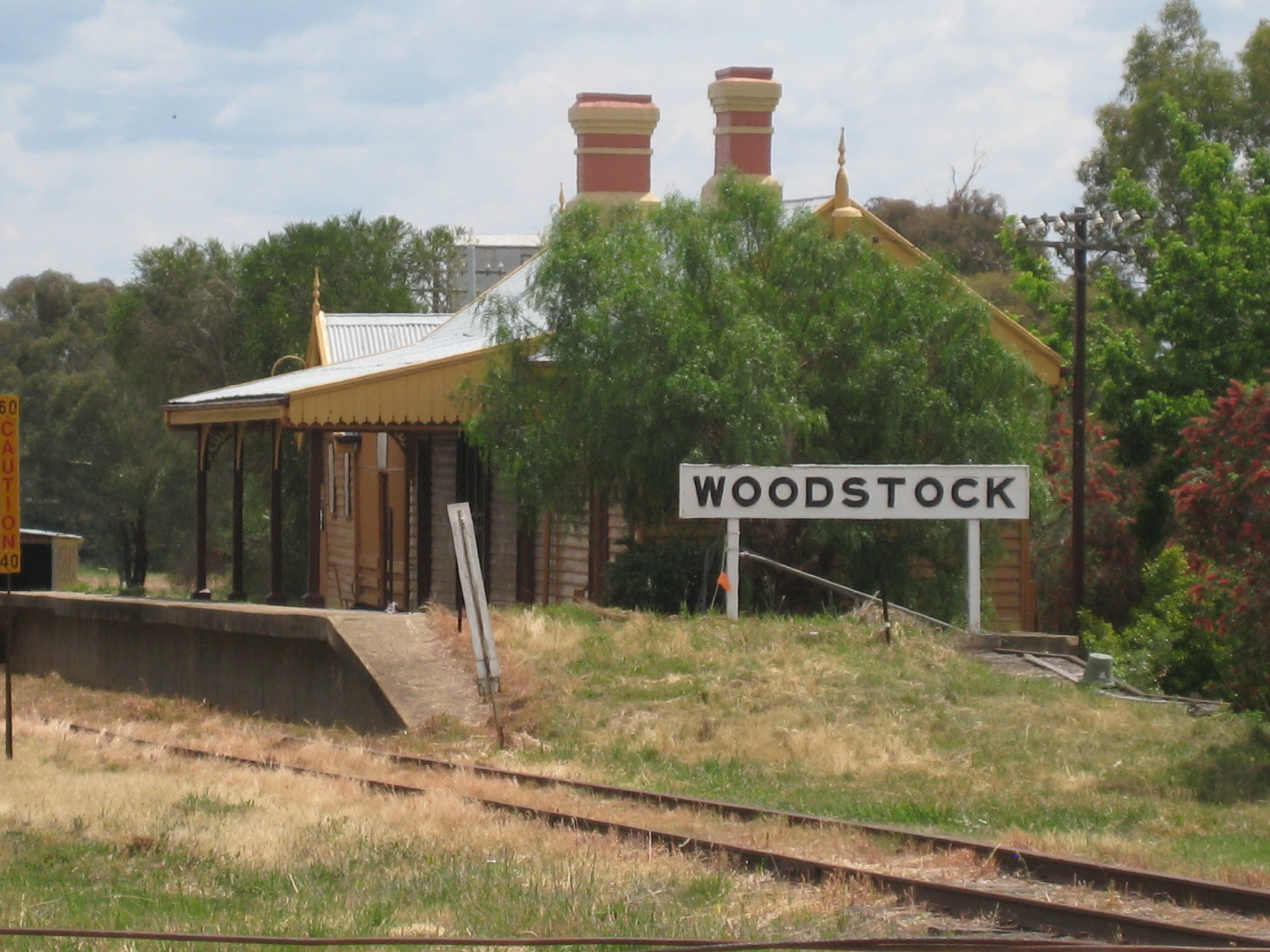 The train station at Woodstock, NSW, October 2015